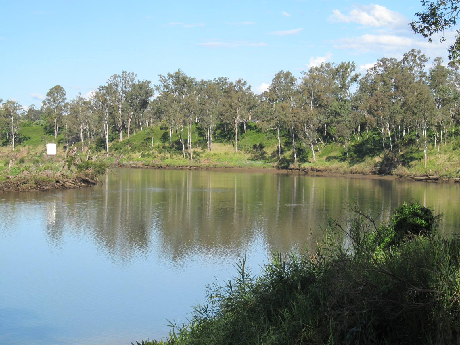 Brisbane River near the Moggill ferry crossing, Riverview, Queensland